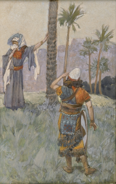 Deborah Beneath the Palm Tree, c. 1896-1902, by James Jacques Joseph Tissot (French, 1836-1902) or followers, gouache on board, 7 1/2 x 4 11/16 in. (19.1 x 12 cm), at the Jewish Museum, New York